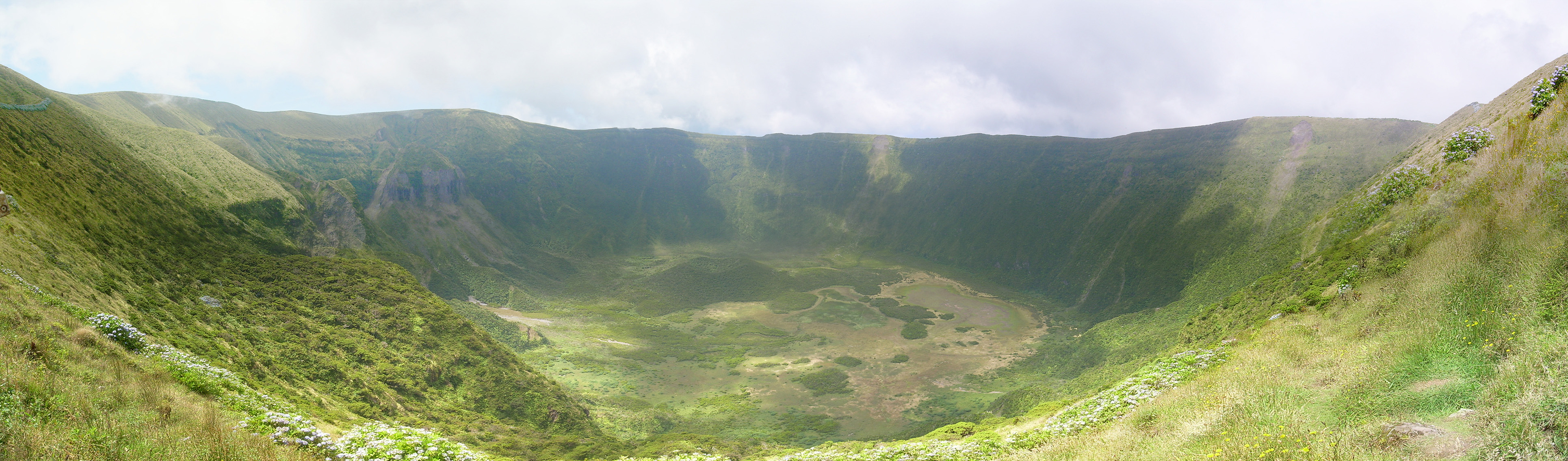 Faial Caldera, Faial Island, Azores, Portugal